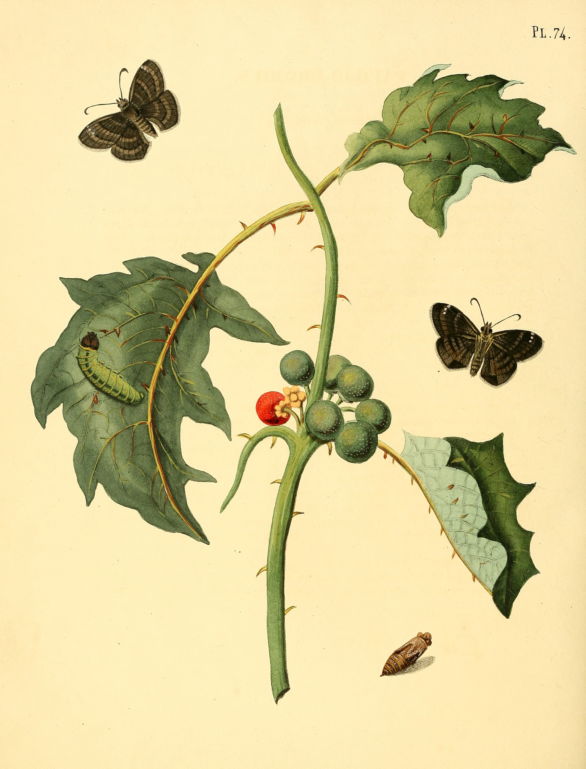 Illustration of: Papilio bromius Stoll (= Nisoniades mimas (Cramer, [1775])) on Solanum indicum (in Suriman Maccai-bladen).